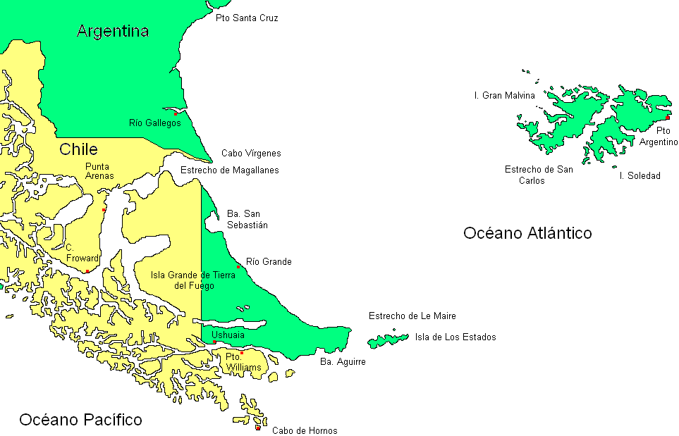 Graphic about main details of argentine continental coast and Malvinas islands